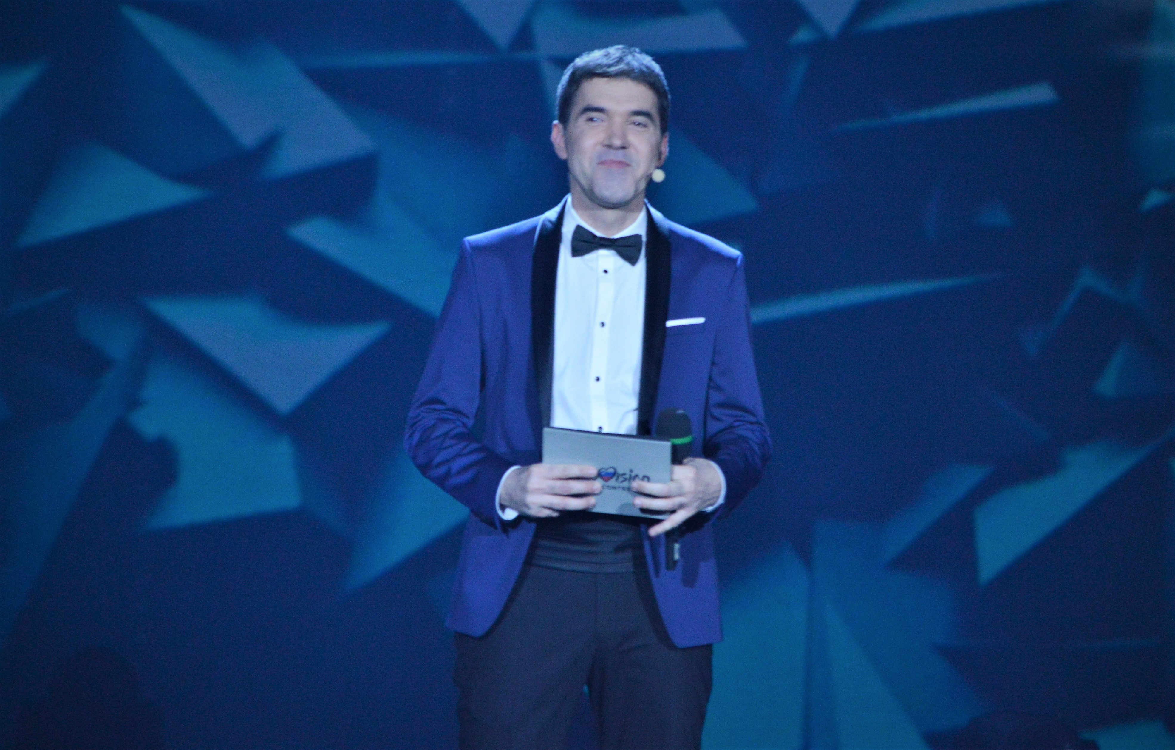 The host of the Slovenian EMA 2017: Mario Galunič